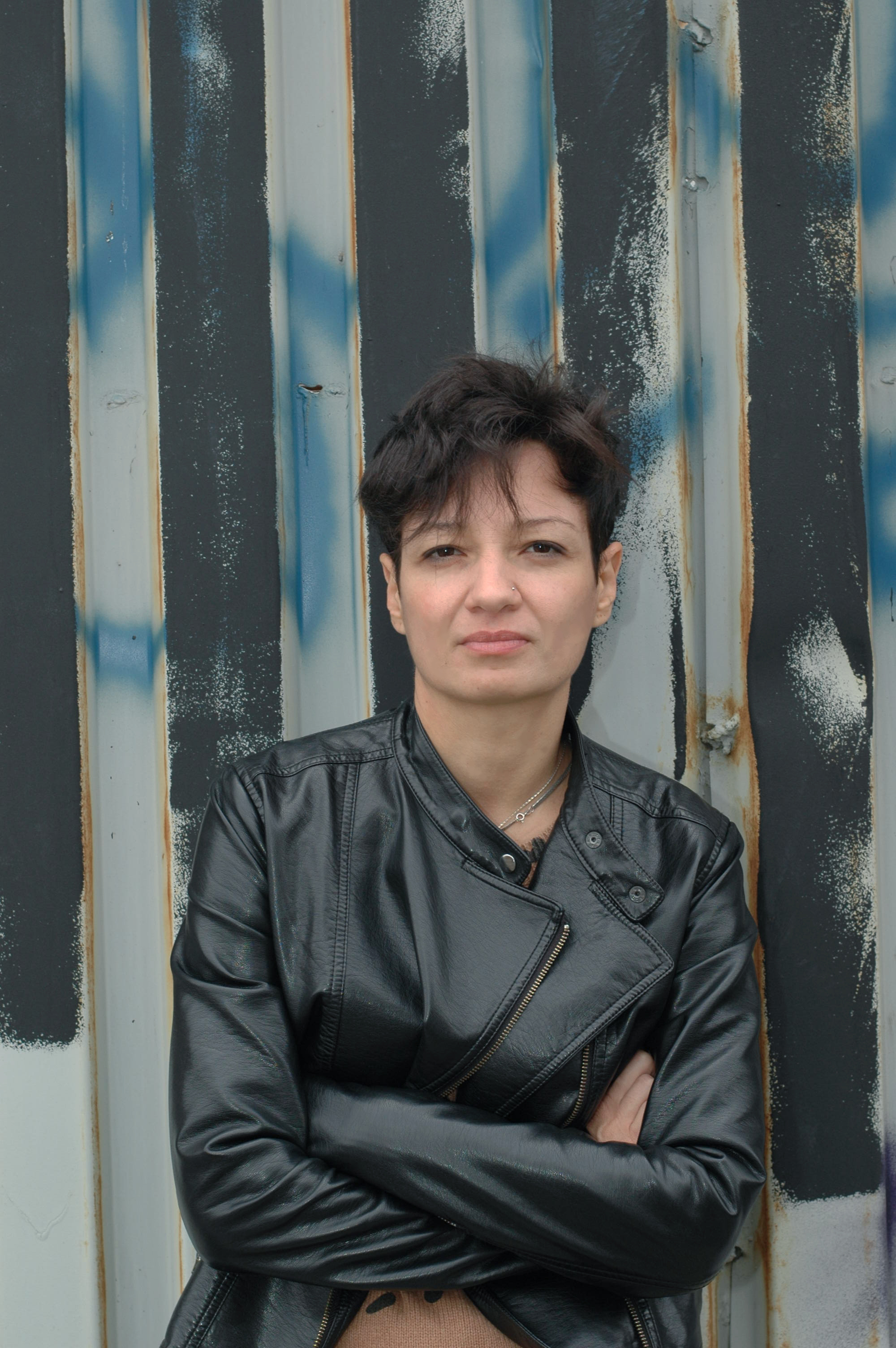 Portrait of Priscila De Carvalho